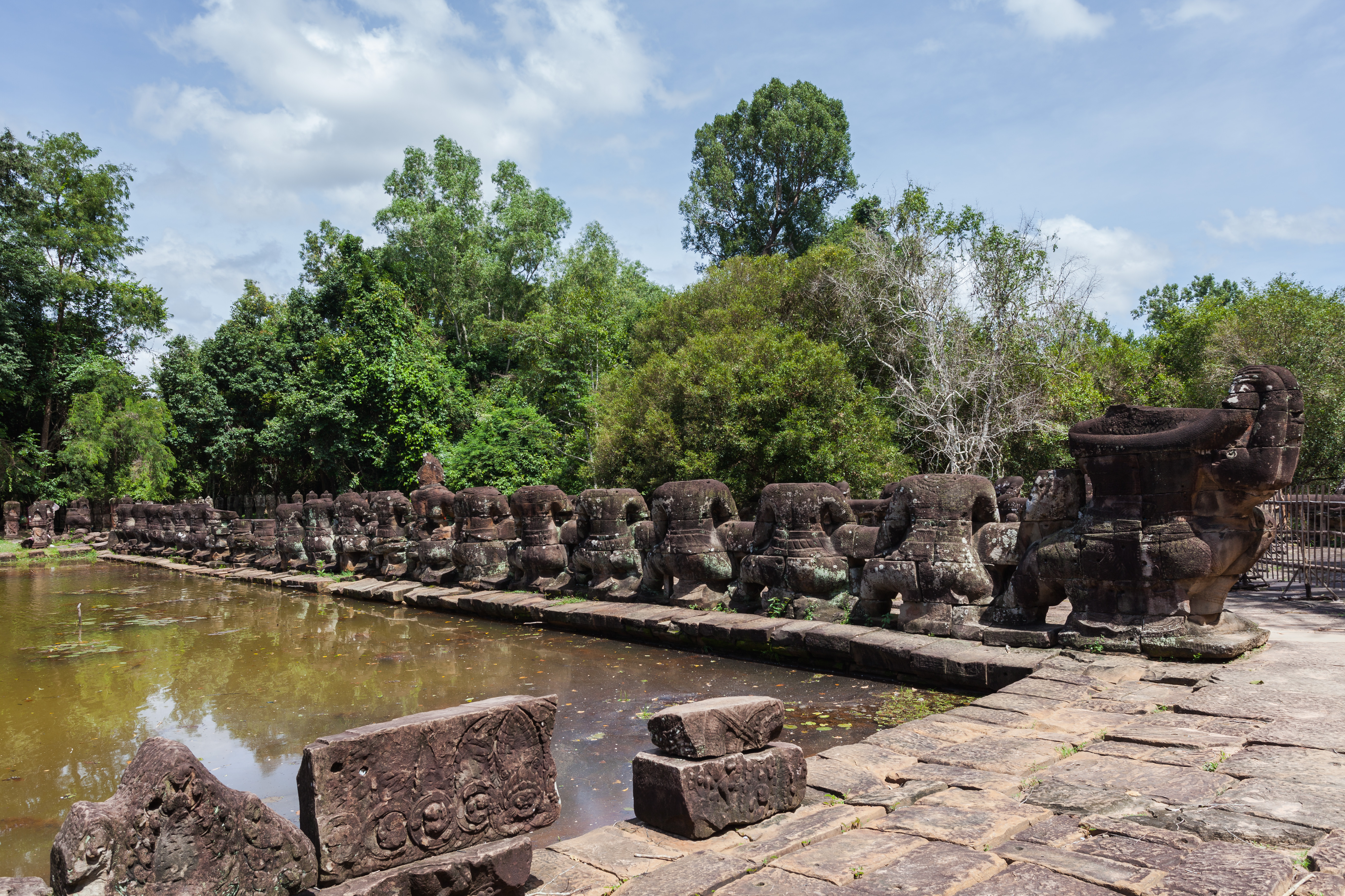 Preah Khan, Angkor, Cambodia